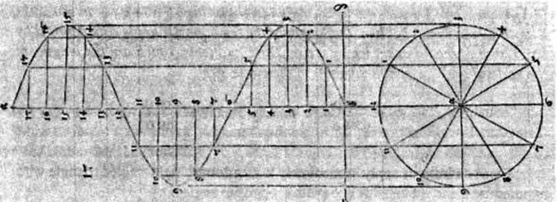 Durer sine wave